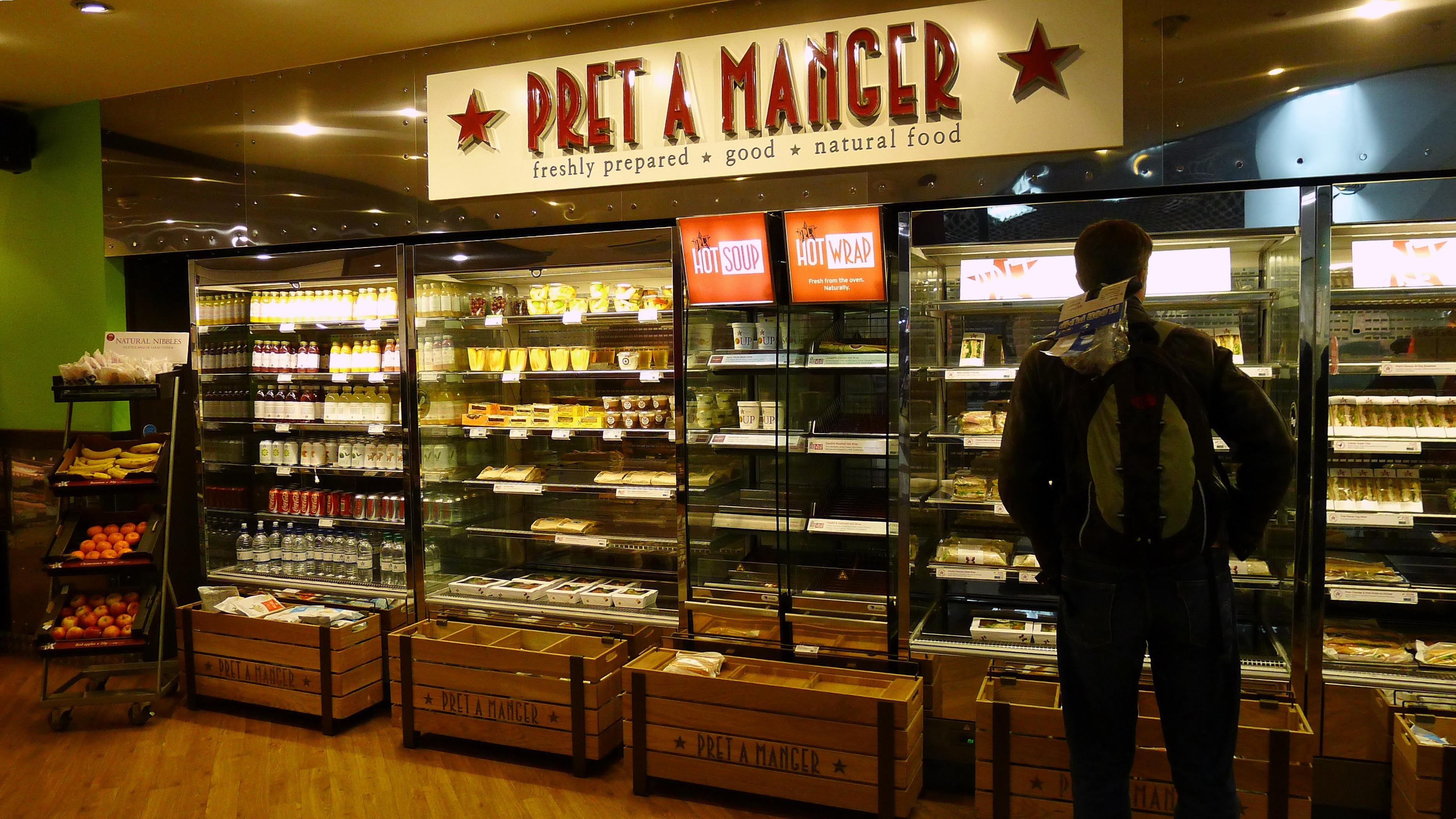 Pret A Manger at Unit 2, Victoria Place Shopping Centre, London